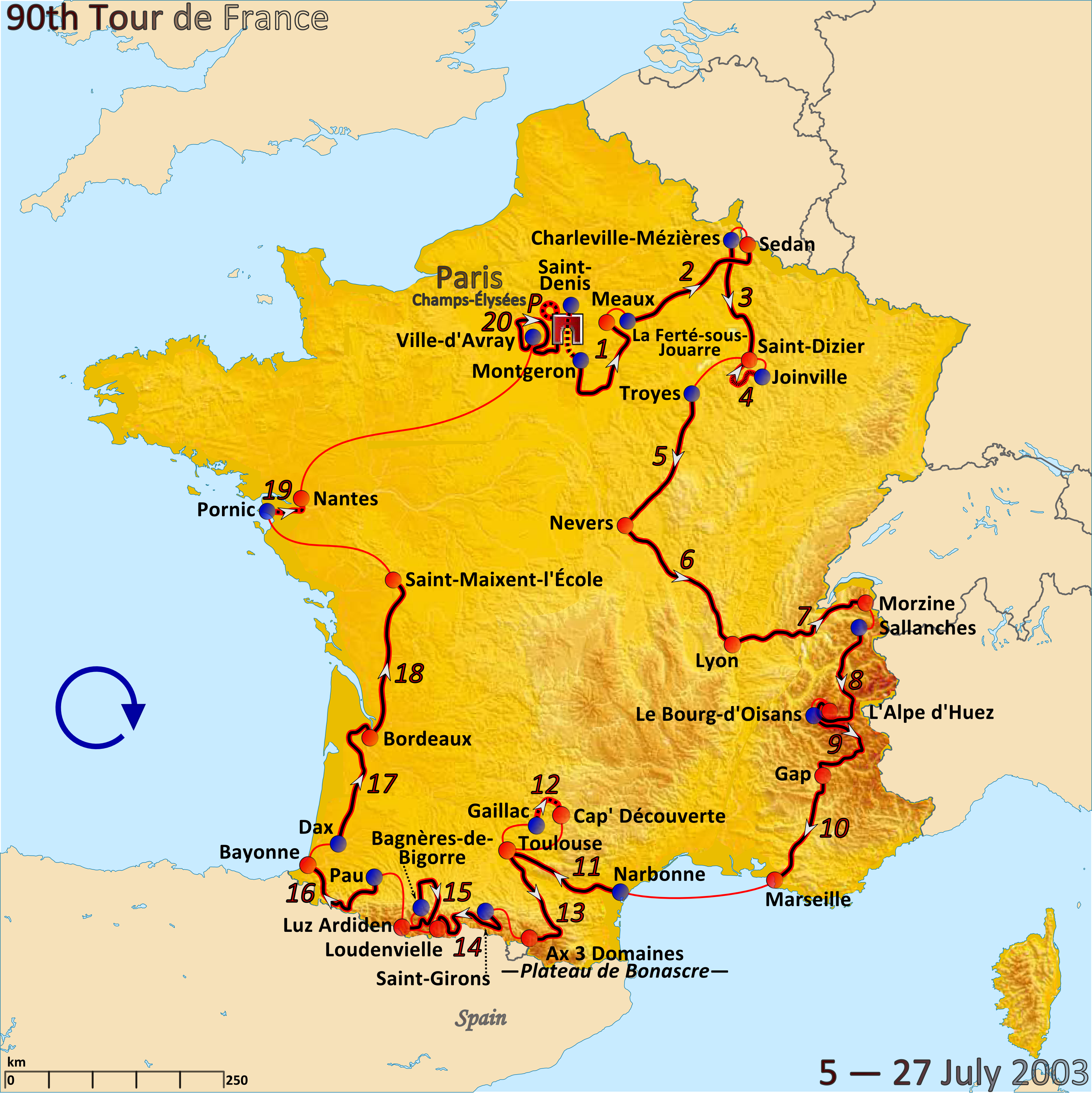 Map of the 2003 Tour de France created in Inkscape